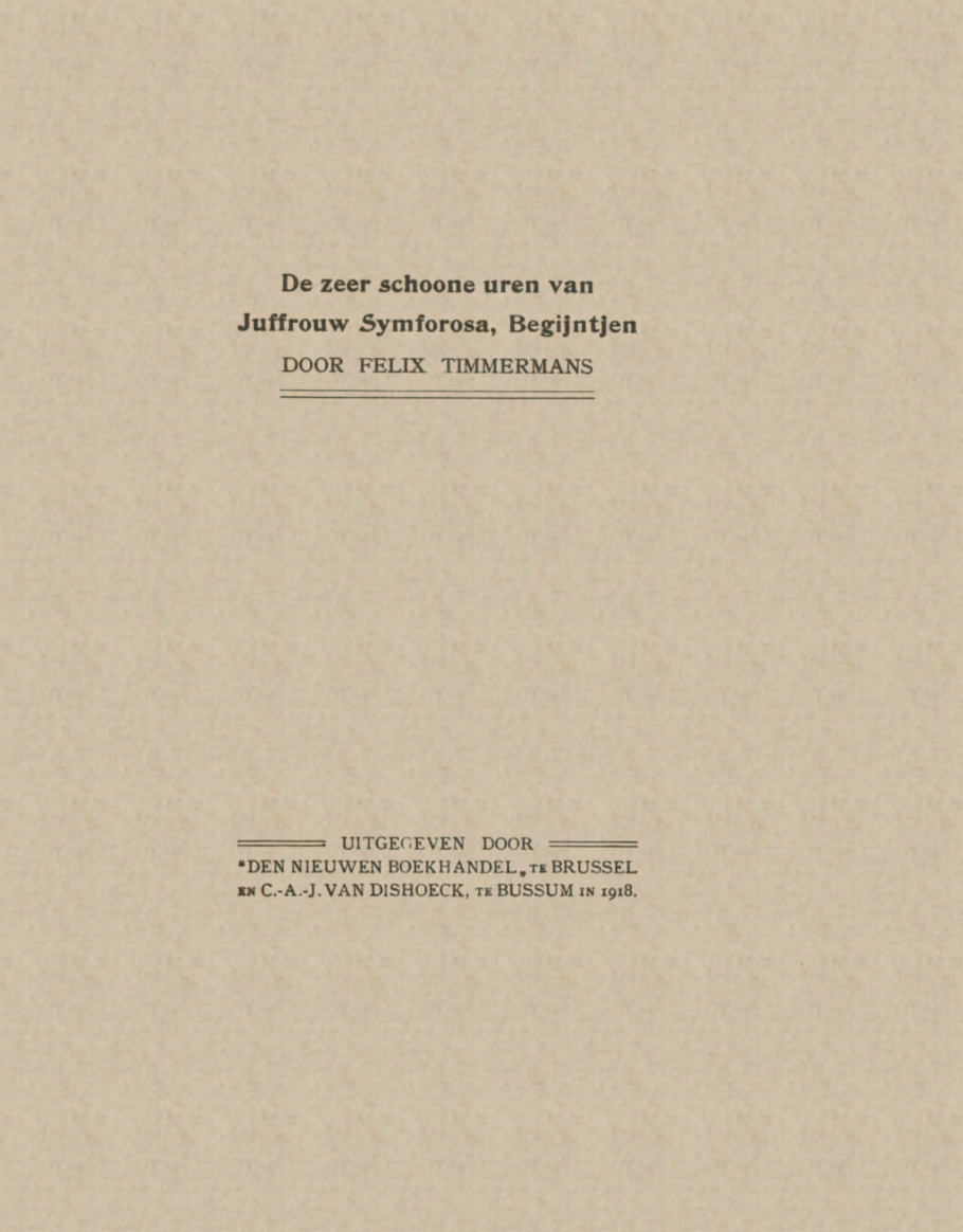 Cover for De Zeer Schone uren van Juffrouw Symforosa Begijntjen